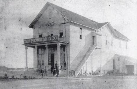 Pere_Marquette_Lumber_Company_store c. 1891